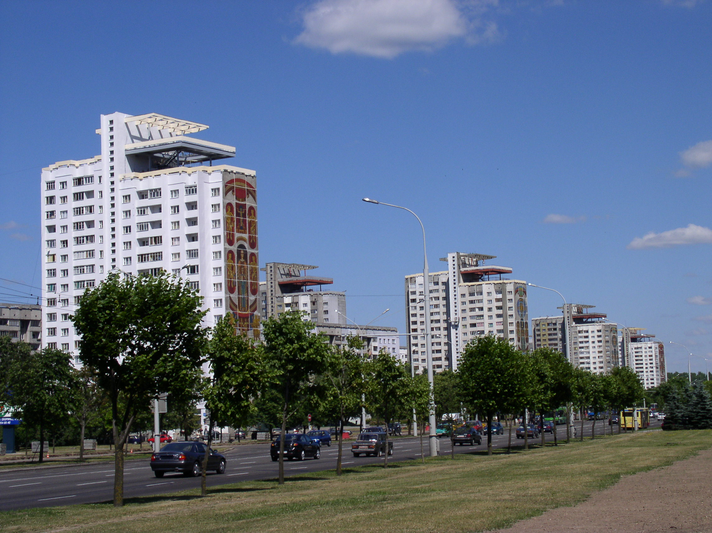 "East-1" residential area, Minsk, Belarus.